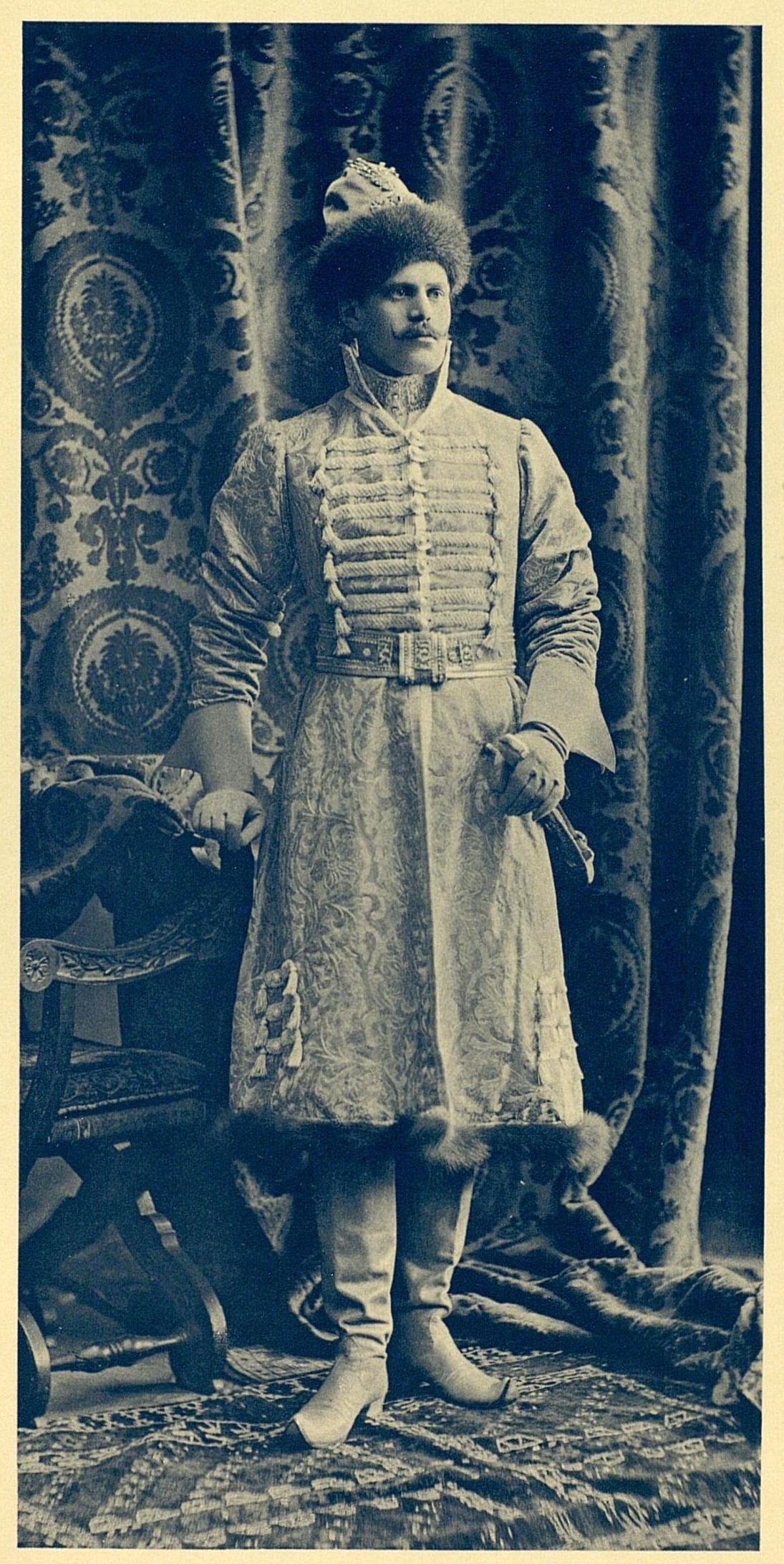 Adjutant of Grand Duke Vladimir Alexandrovich, Staff Captain A.A.Belyaev, in the attire of a 17th-century tenant